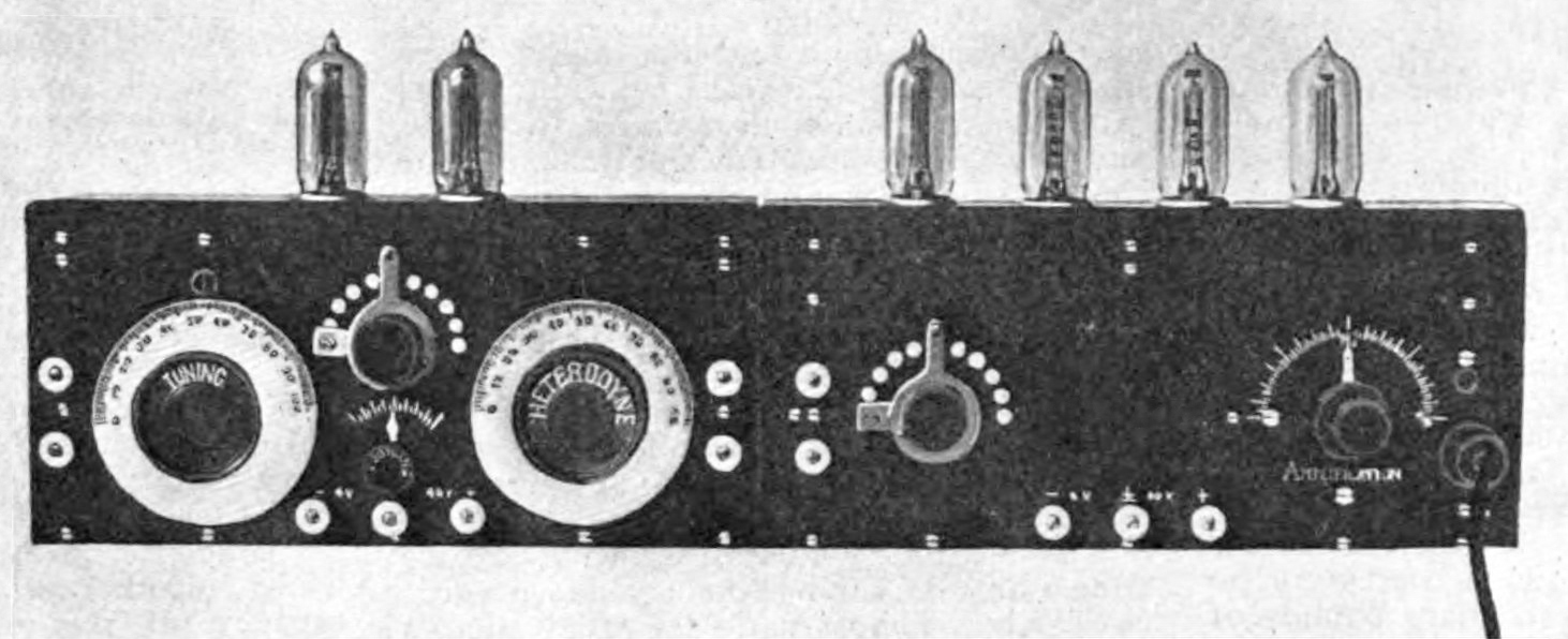 One of the first prototype superheterodyne radio receivers built by inventor Edwin Armstrong. The superheterodyne, the circuit used in virtually all modern radios, was invented by Armstrong in 1918 while he worked in a US Army Signal Corps laboratory in Paris during World War 1. This is one of the receivers constructed at that laboratory, shown in a 1920 article in an amateur radio magazine. It is constructed in two parts. The lefthand section consists of the mixer and local oscillator. The oscillator uses an Armstrong "tickler" circuit. The two large knobs are the input tuning capacitor (left, labeled TUNING) and the local oscillator tuning capacitor (right, labeled HETERODYNE). The upper center multiposition switch controls the filament current, while the lower center knob controls the feedback coupling of the oscillator. The righthand section contains an IF transformer filter, 3 stages of RC-coupled IF amplification and a detector stage. The multiposition switch on this section controls the filament current of the 4 tubes, while the righthand knob (labeled AMPLIFICATION) controls the gain of the amplifier. All the tubes are VT triodes made by Western Electric. The circuit uses an IF of around 75 kHz. Caption: "One of the first complete Armstrong amplifiers built in Armstrong's Paris laboratory. The cabinet at the left contains the tuning and heterodyne circuit and at the right the amplifying cabinet is shown"